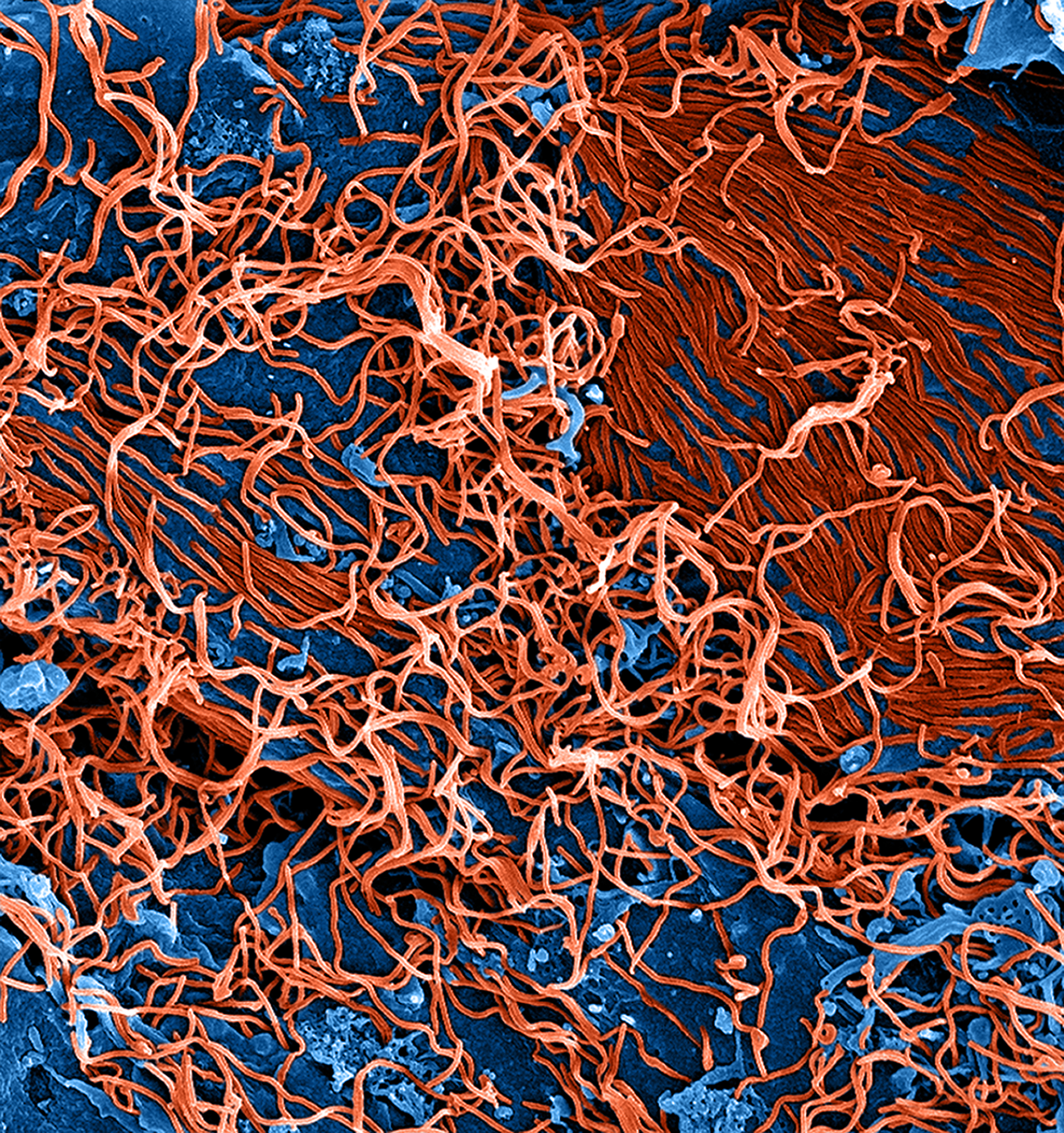 Colorized scanning electron micrograph of filamentous Ebola virus particles (red) attached and budding from a chronically infected VERO E6 cell (blue) (25,000x magnification). Credit: NIAID